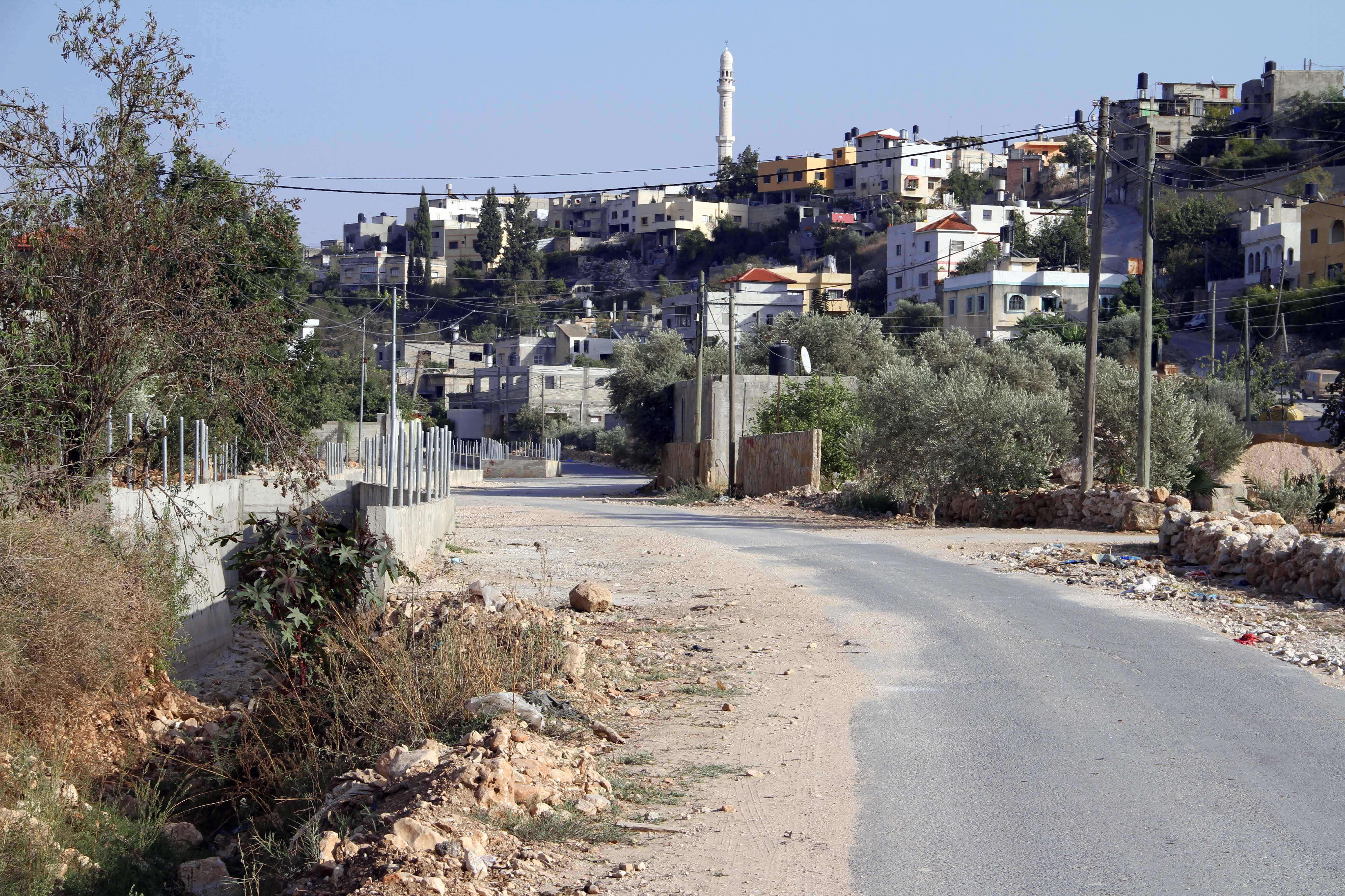 Qaffin